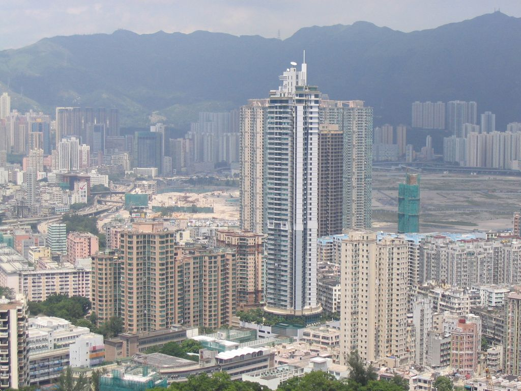 土瓜灣 To Kwa Wan (view from Ho Man Tin)